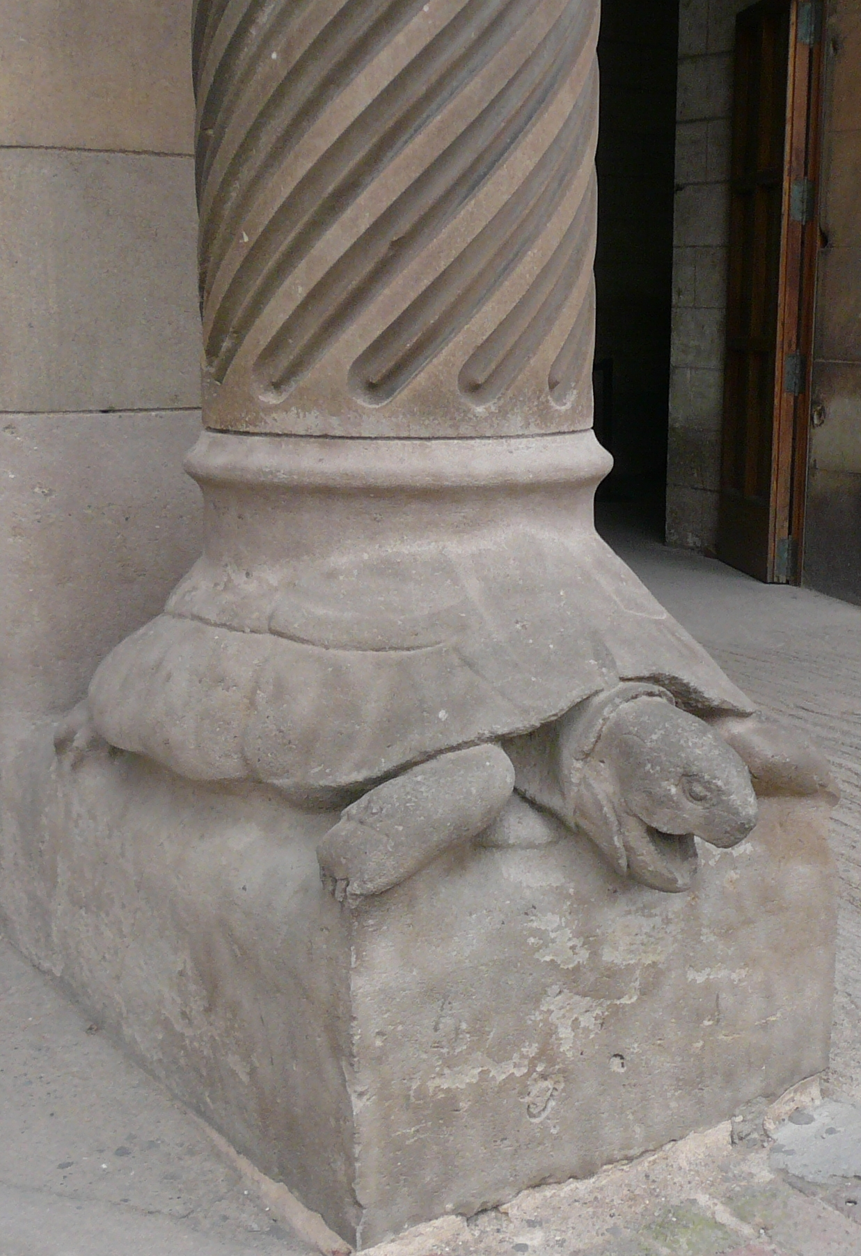 Nativity Façade of Sagrada Familia, Barcelona, Spain